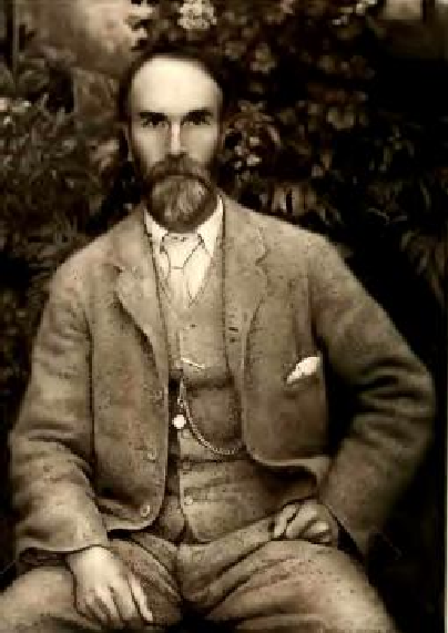 Richard Lewis Nettelship (1846 - 1892)